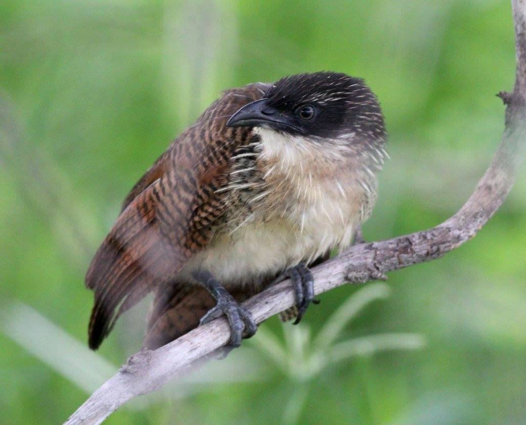 A juvenile Coppery-tailed coucal in Mahango Game Park, Namibia